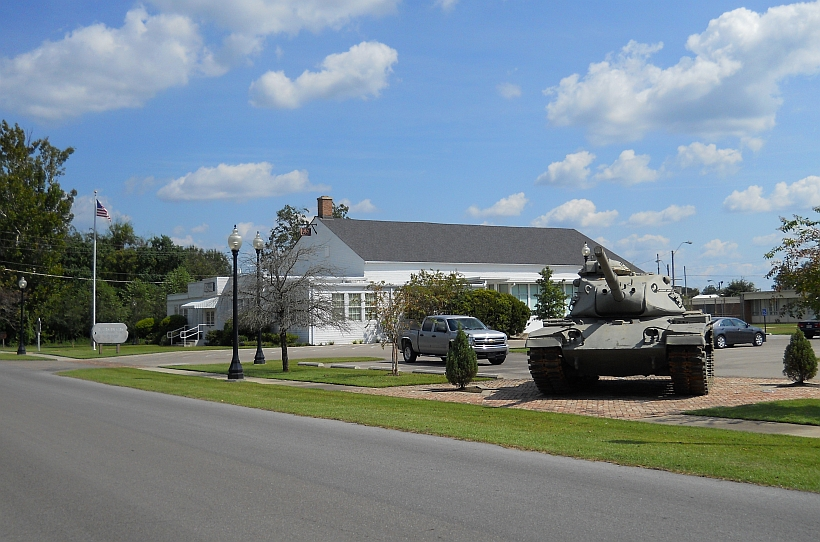 Exterior view of African American Military History Museum located in Hattiesburg, Forrest County, Mississippi, USA.